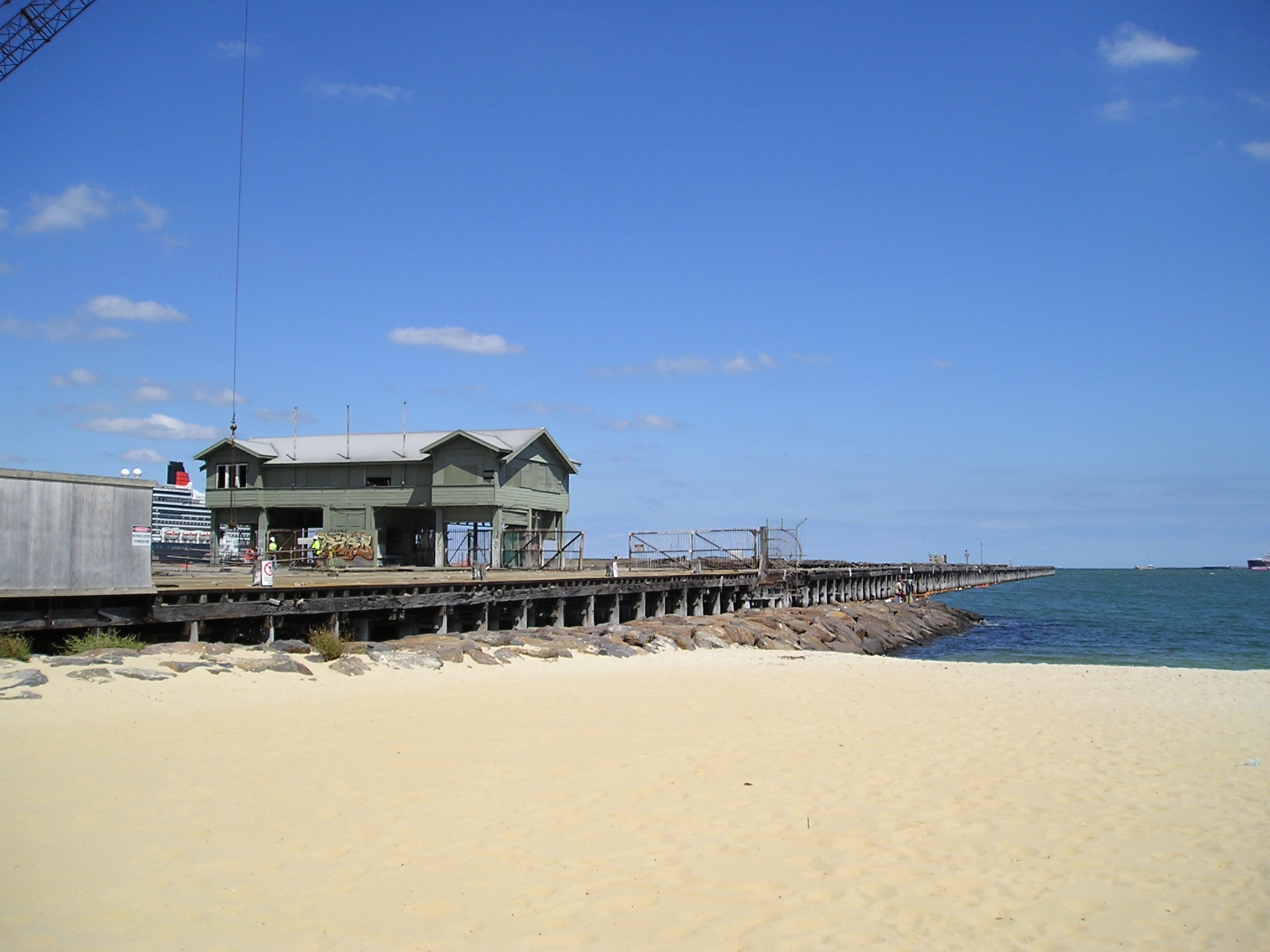 Princes Pier, Port Melbourne undergoing renovation.